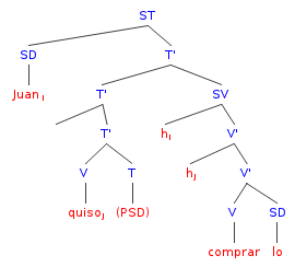 Clitic lo needs to be postverbal with non-finite verb comprar